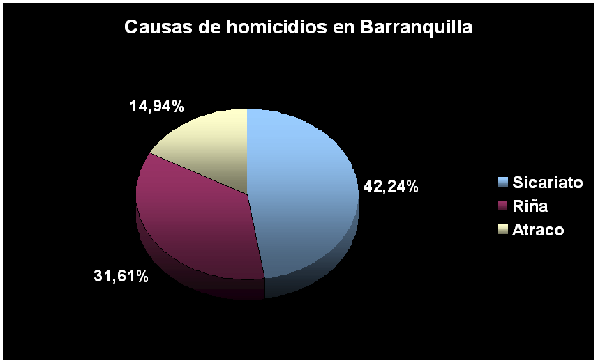 Barranquilla - Homicide causes